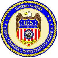 It is the OFFICIAL Seal that is used and issued to NCIS.